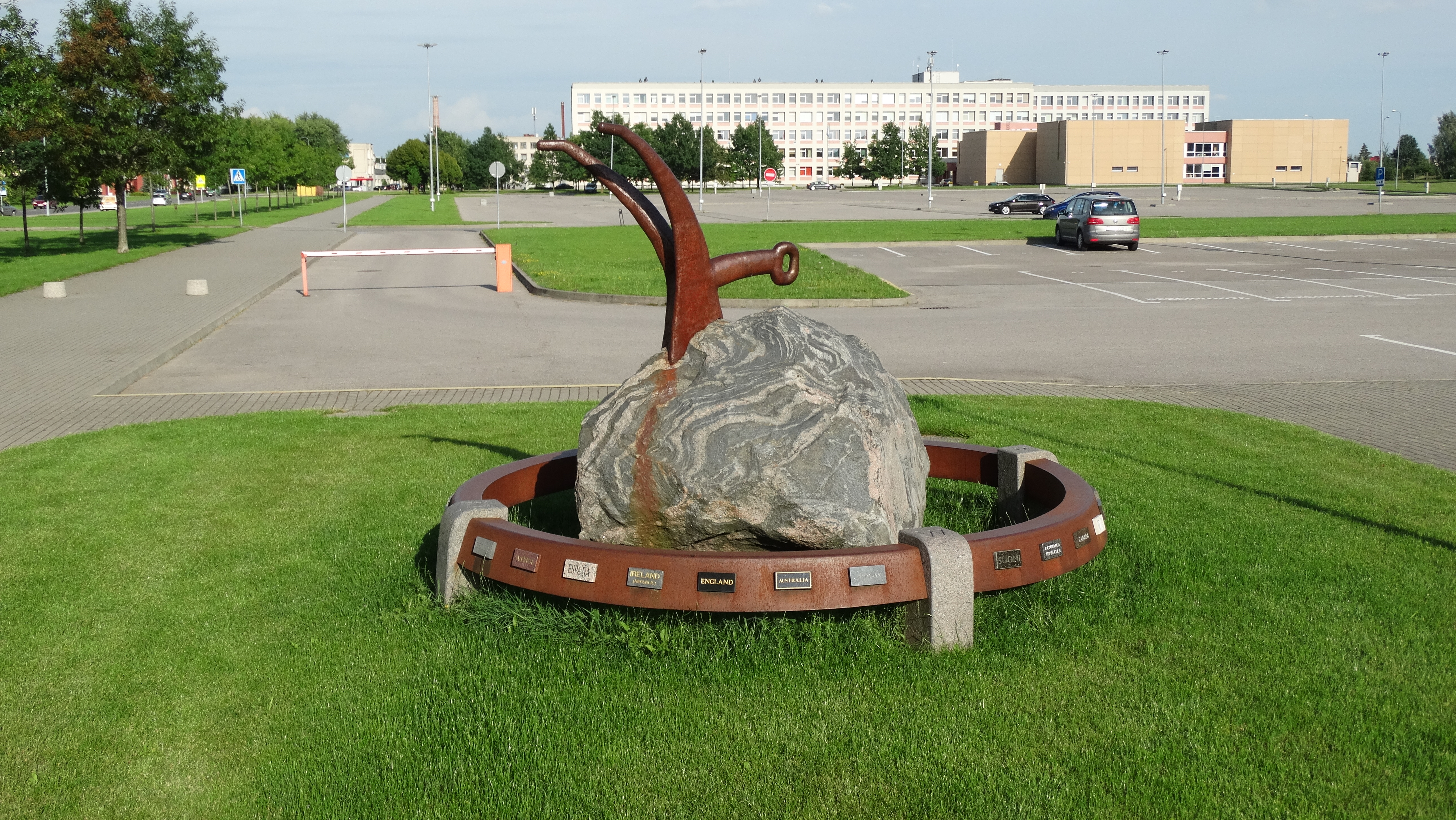 Akademija, Kaunas District, Lithuania